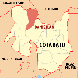 Map of the Cotabato showing the location of Banisilan